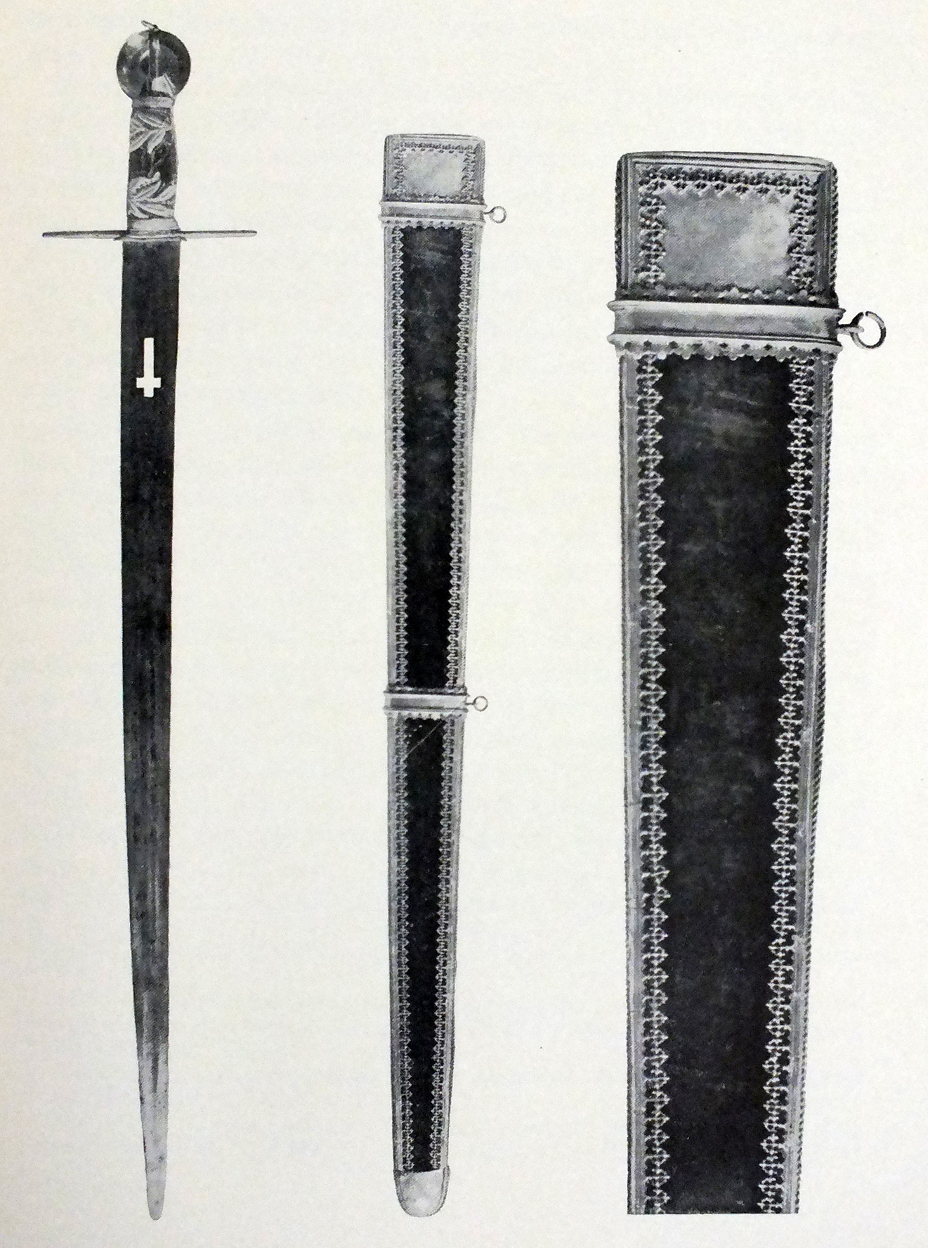 The so called St. Wenceslas Sword, once used for coronations of Czech kings.